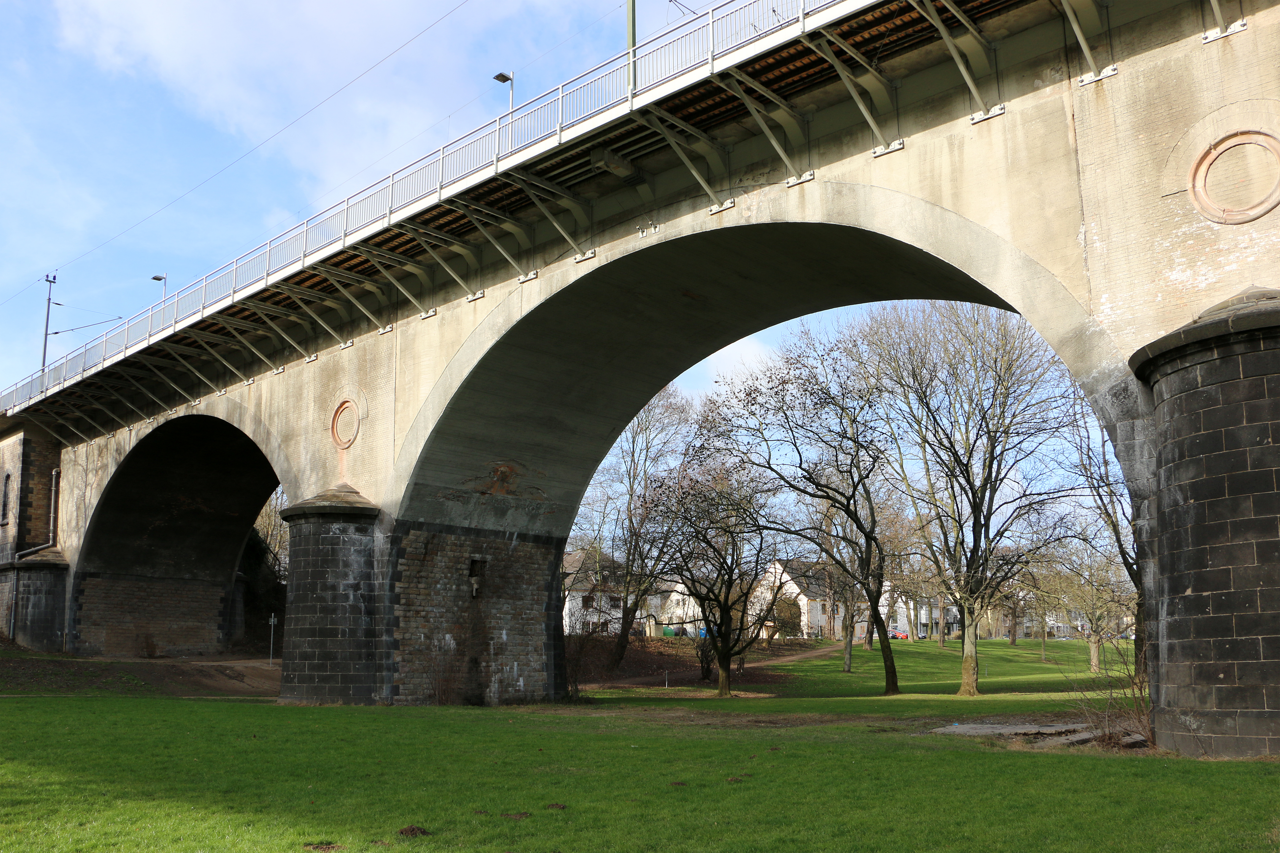 Horchheimer Eisenbahnbrücke in Koblenz